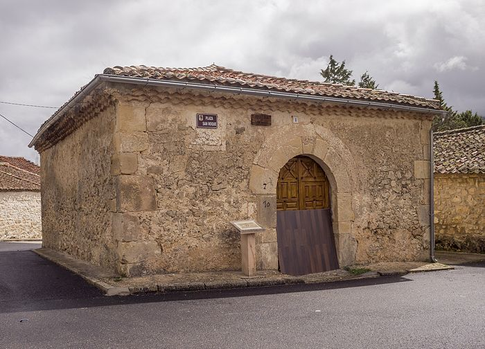 Ermita